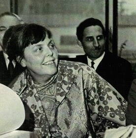 Alla Levashova in 1968